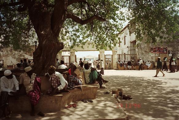 Lamu Town Square